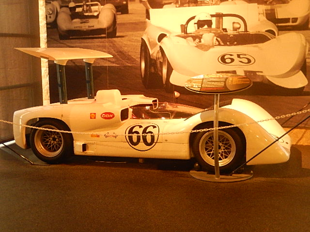 I took photo of sportscar exhibit at Permian Basin Petroleum Museum in Midland, with Nikon camera.